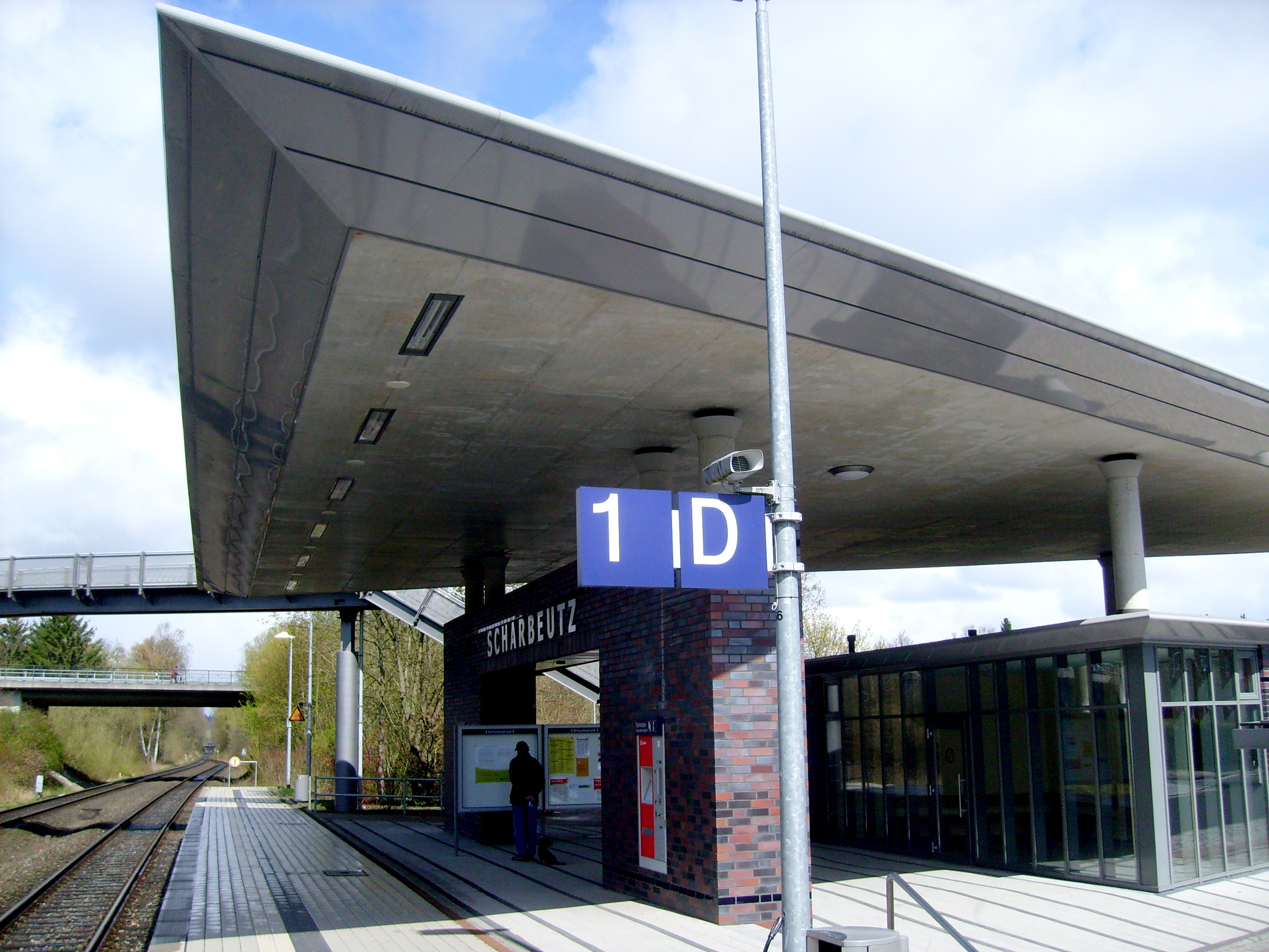 The new Scharbeutz station building in Schleswig-Holstein, Northern Germany, as to be seen from the platform.